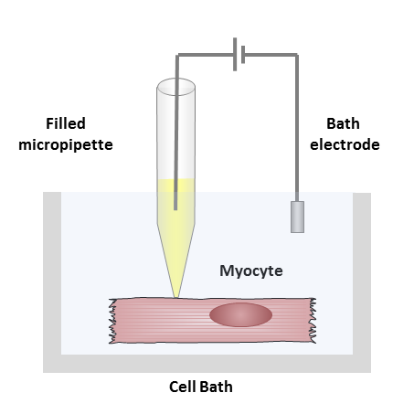 Schematic of patch clamp electrophysiology circuit with cell and micropipette